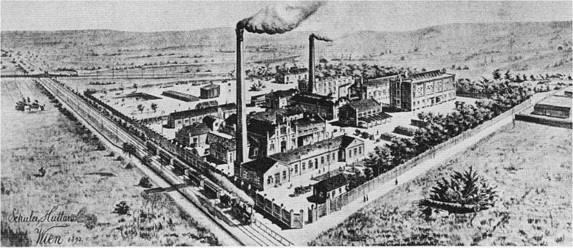 Front section of the "Apollo" soap and candles factory in Simmering.